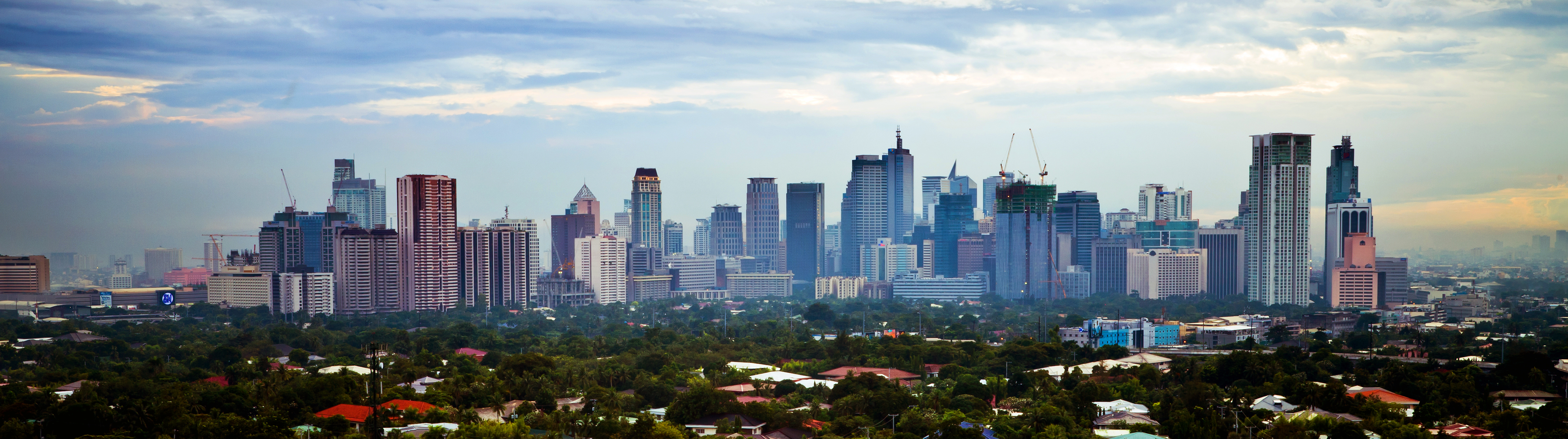 Makati Skyline cropped for a banner